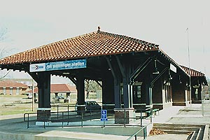 The Amtrak station in Arkadelphia, Arkansas.